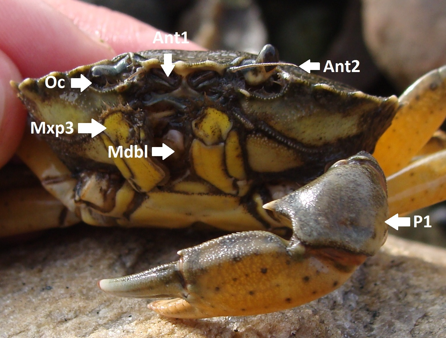 Carcinus maenas (front)